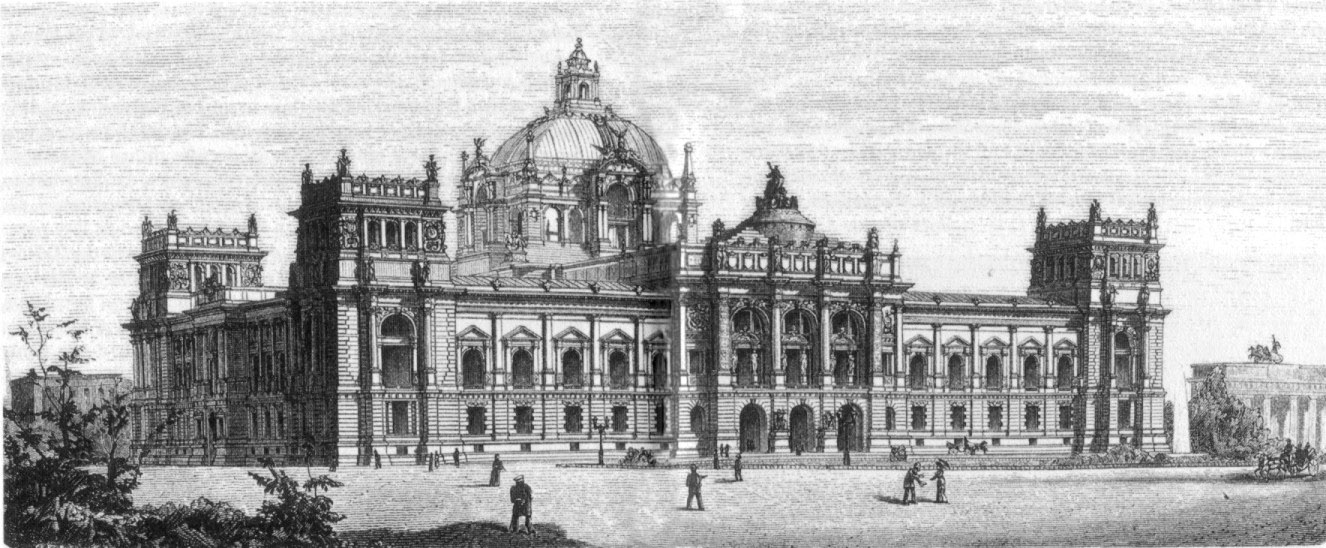 Design for the german Parliament (the Reichstag). First place in the competition 1882.